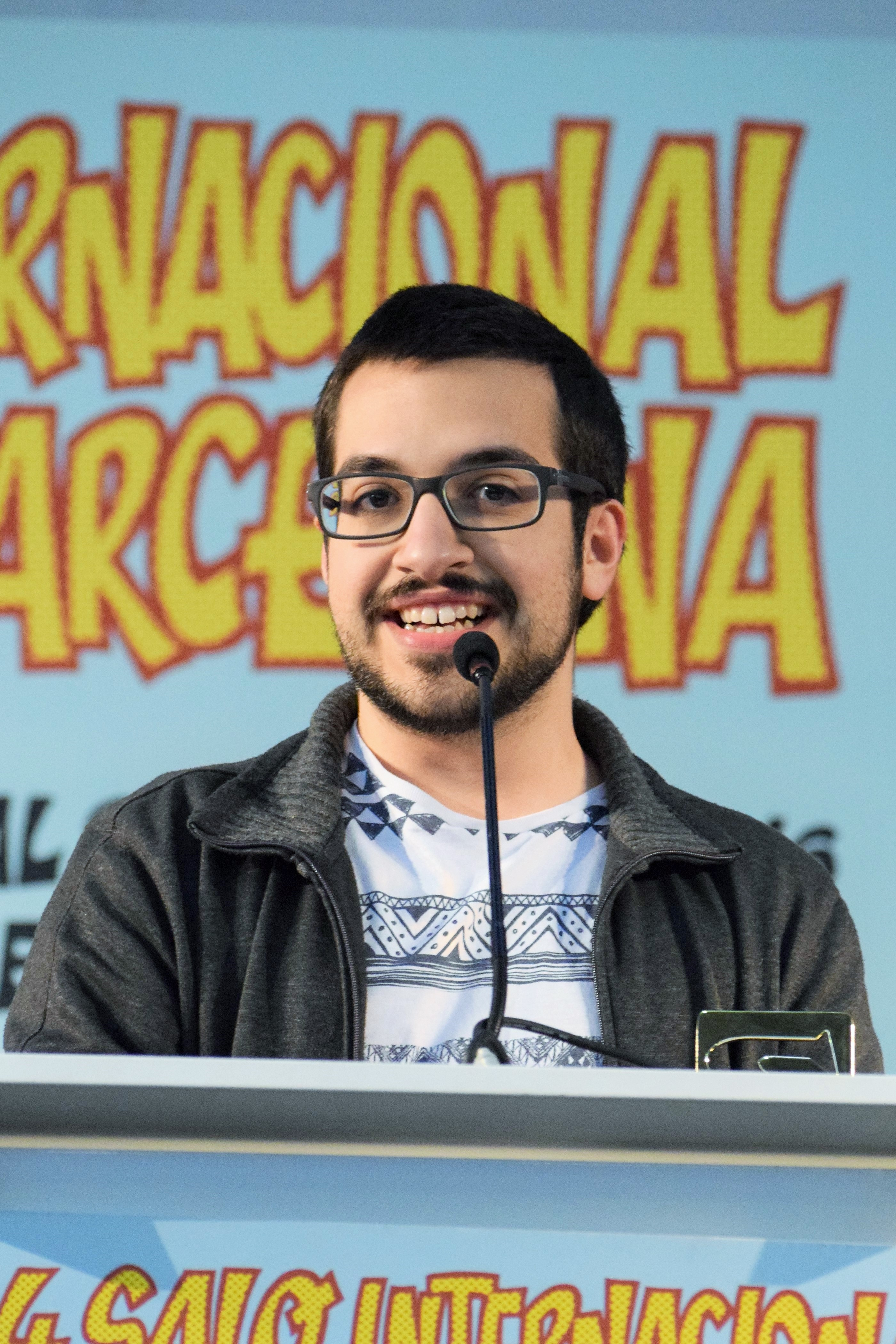 The comic artist Javi de Castro making a speech after winning the Award for the Best Promising Author (or Best Newcomer Author) for this comic La última aventura. Barcelona Internacional Comic Convention. Friday 6 may 2016.